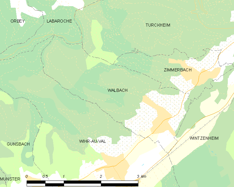 Map of French municipality